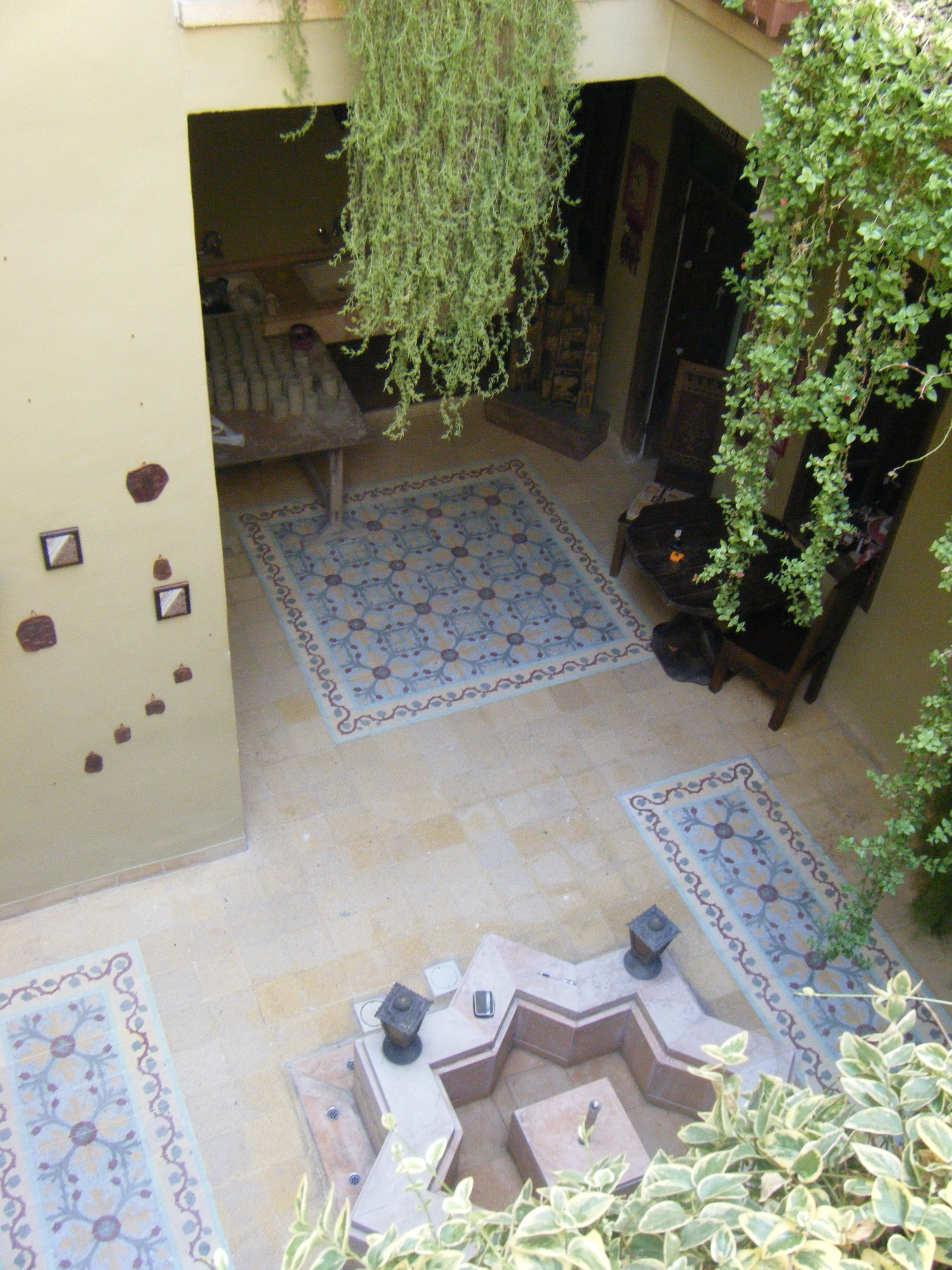 Beit Shocair for Culture and Heritage, Amman, Jordan